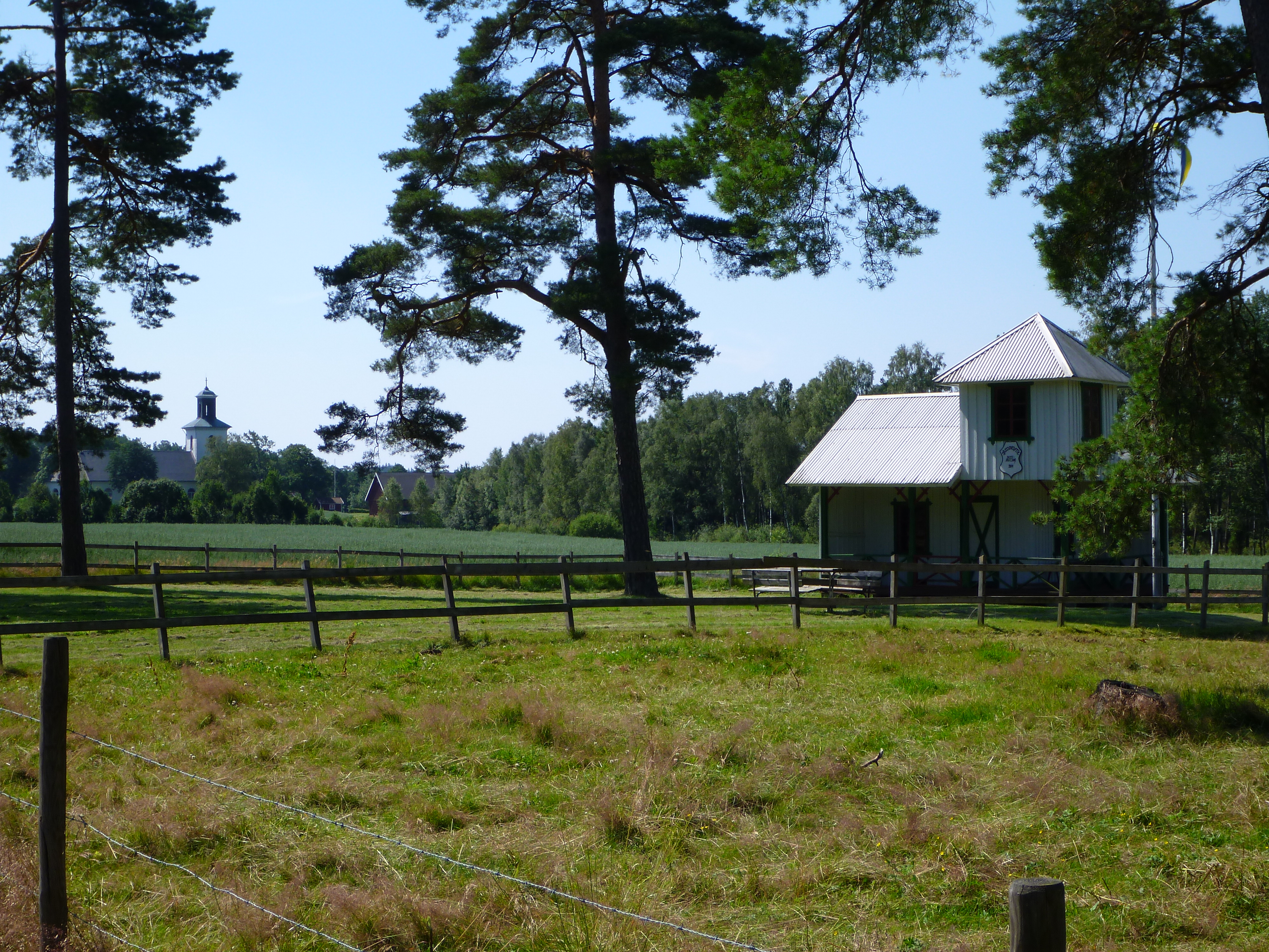 Jälluntoft church (left) and the pavillion of the former rifle club (right)